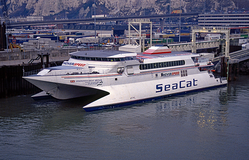 HSC HoverSpeed Great Britain at Dover in 1992. Holder of the Hales Trophy for the fastest eastbound Transatlantic crossing. Information about the vessel may be found at IMO 8900000.A ship can change name and flag state through time, but the IMO number remains the same through the hull's entire lifetime. As a result, it can be useful to identify a ship by using the IMO number. Scanned from a Fujichrome 35mm slide.